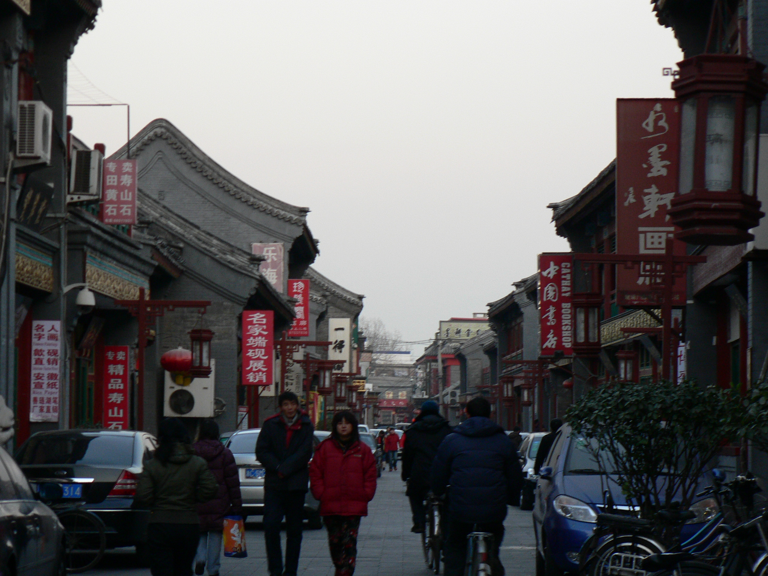 The Liulichang quarter in Beijing